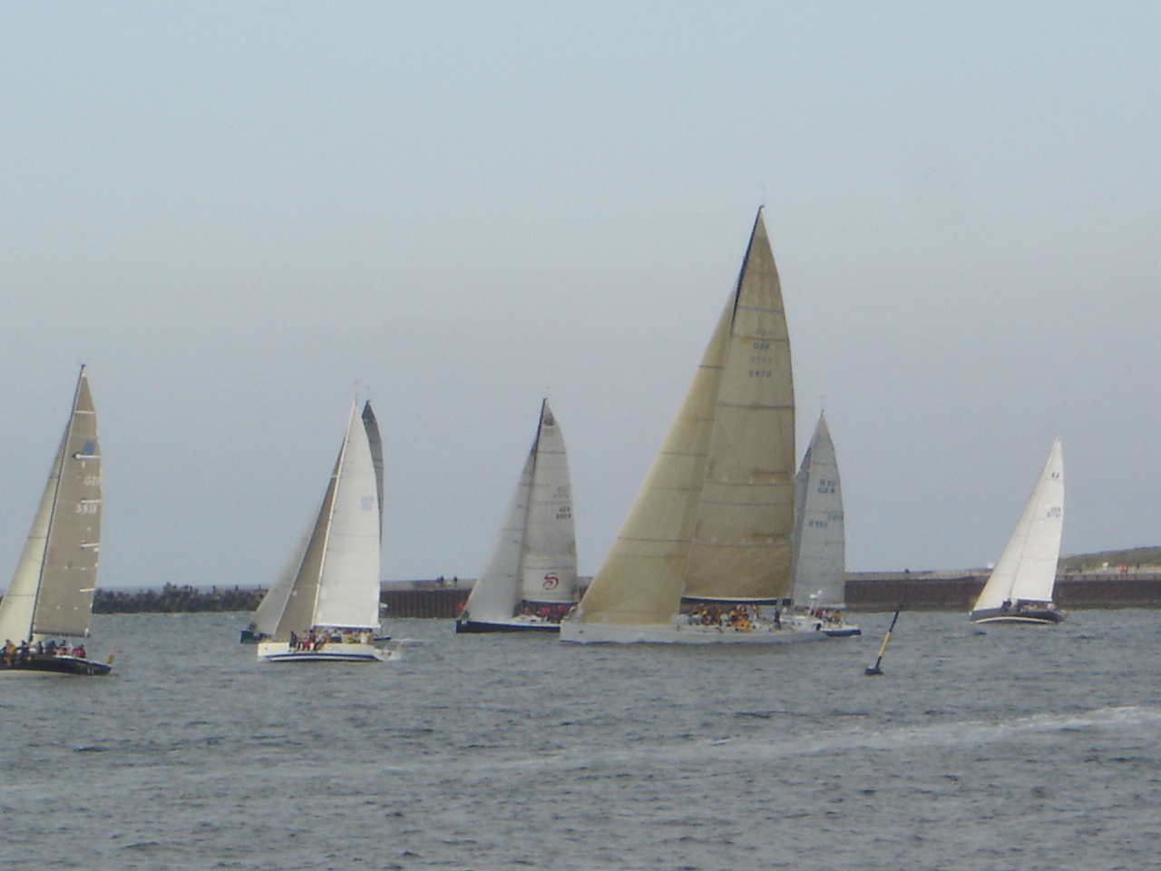 starting field for the "Skagen Race" at the end of "North Sea Week", between Heligoland main island and Heligoland dune